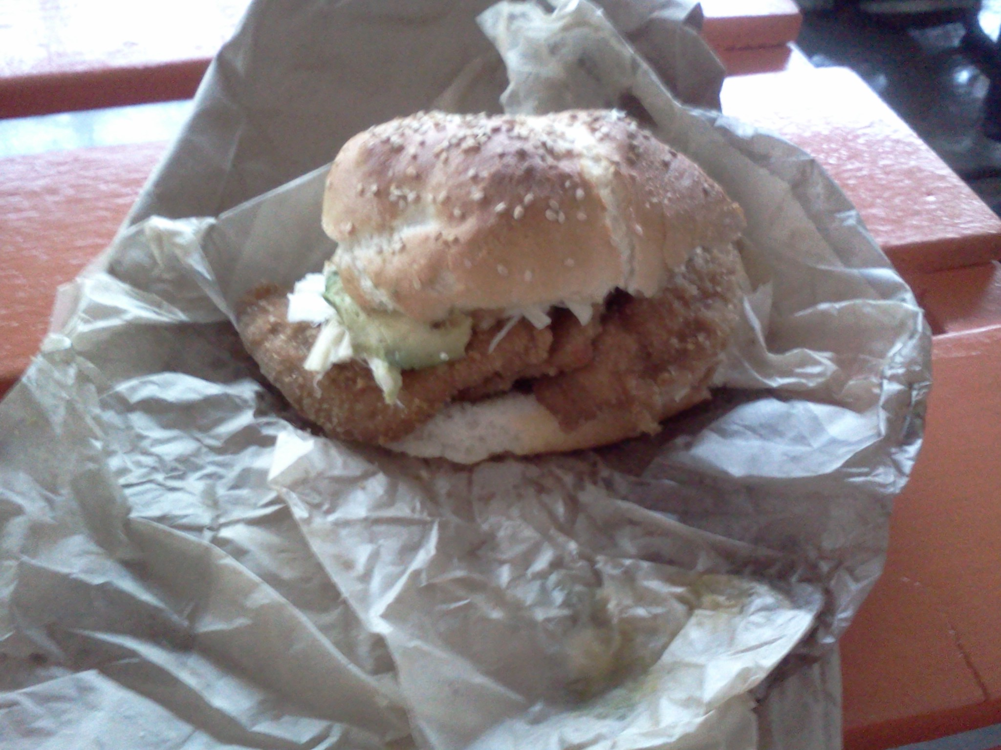 Tradicional cemita poblana del Mercado de los Sabores en el centro de la ciudad de Puebla.